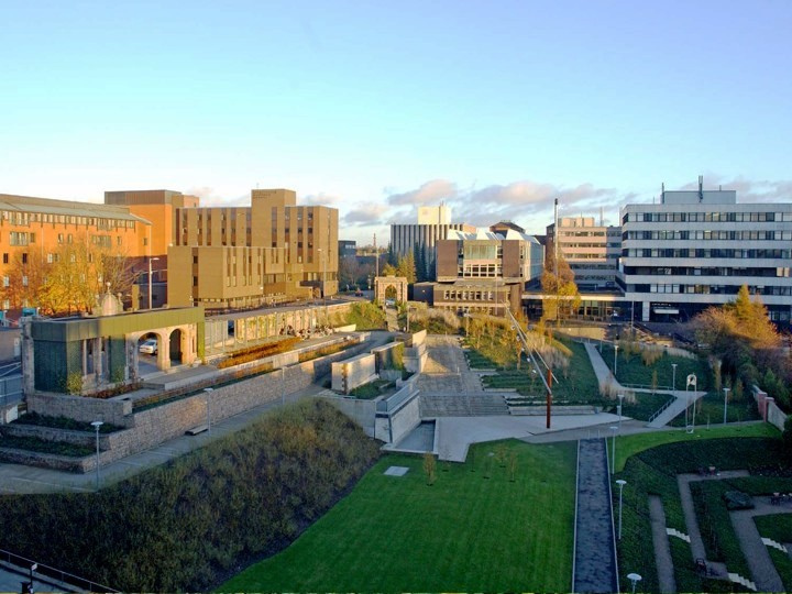 A view to the western half of the John Anderson Campus with Rottenrow Gardens in the foreground